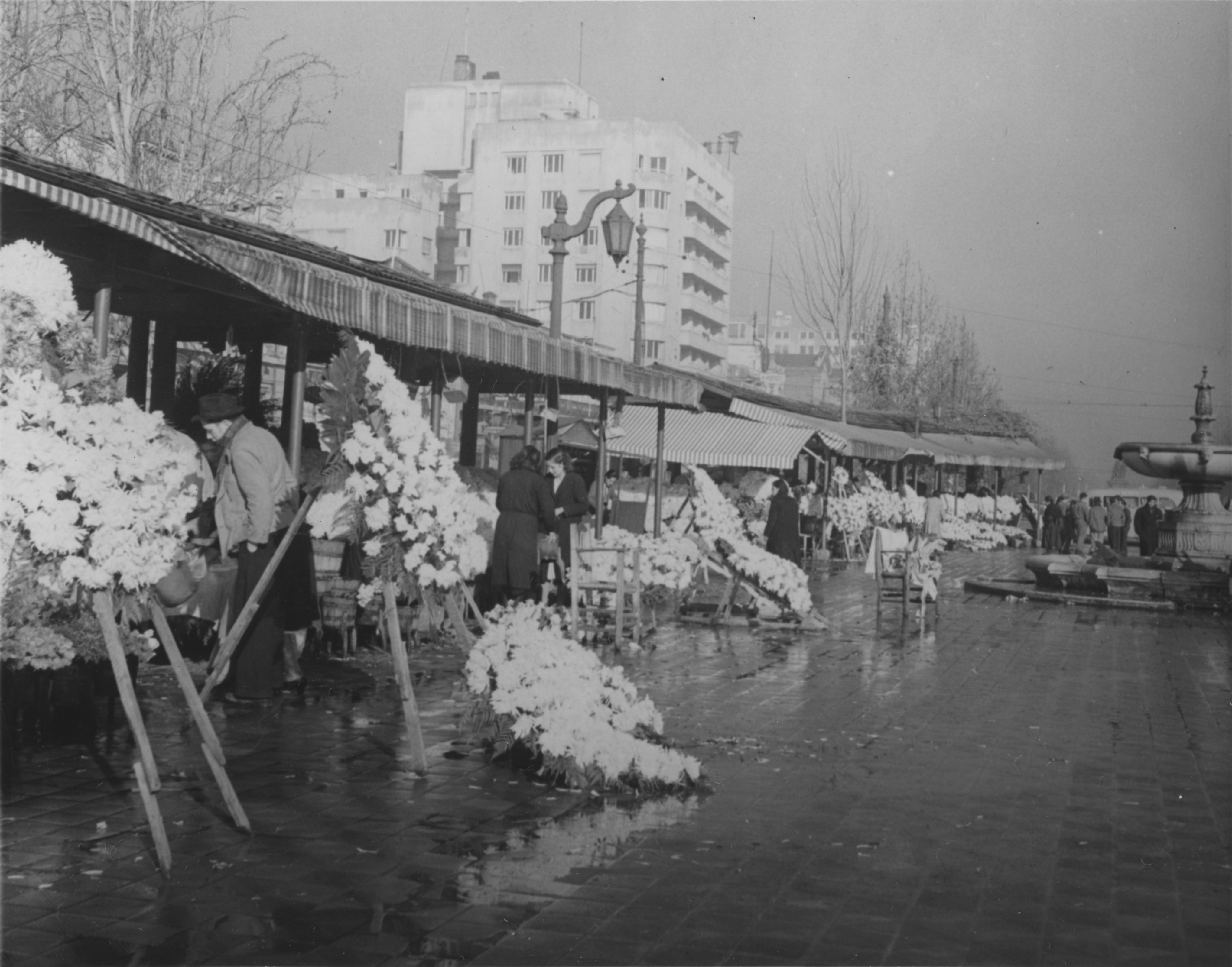 Flower market on Avenida O'Higgins, Santiago, in June 1941. Photographer was Harry P. Hart of the Bureau of Public Roads (d 1990[1]). The building in back is Av O'Higgins 902.